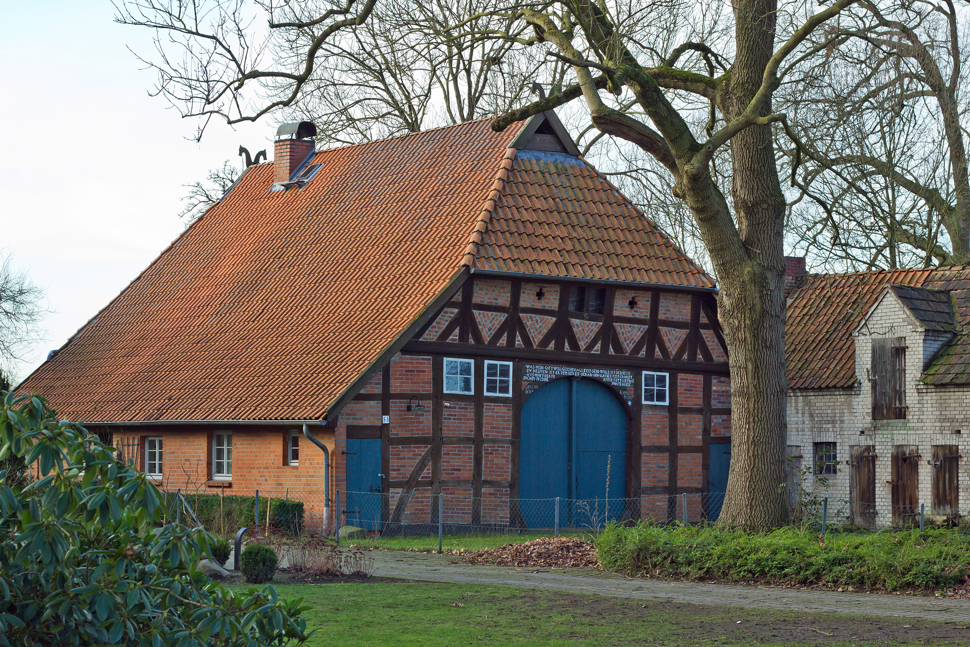 Building No 53 (former No 12) in the village Breese in der Marsch (district Lüchow-Dannenberg, northern Germany). Built in 1723; one of the few houses that resisted a fire catastrophe in 1834.